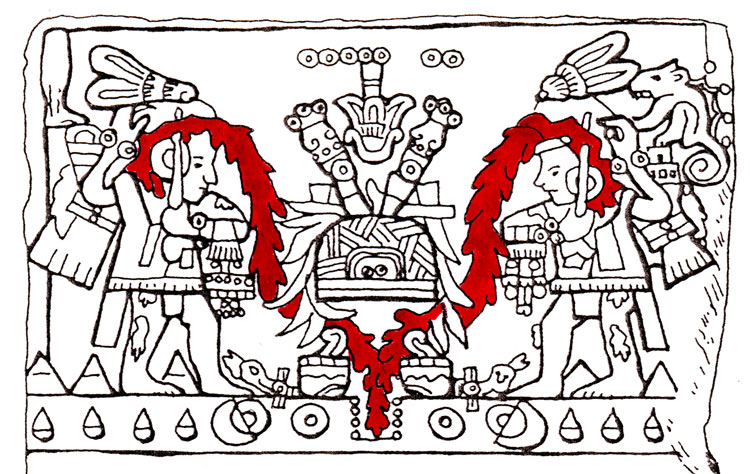 Adapted from a drawing of Tizoc and Ahuizotl Dedication Stone in 'Aztec Art" by Esther Pasztory, New York 1983 pg150